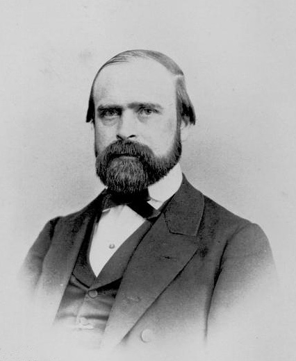 The German violinist Raymund Dreyschock (1824—1869)